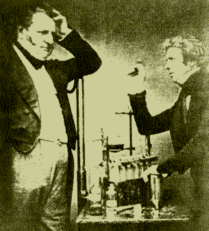 English chemists Michael Faraday and John Frederic Daniell.